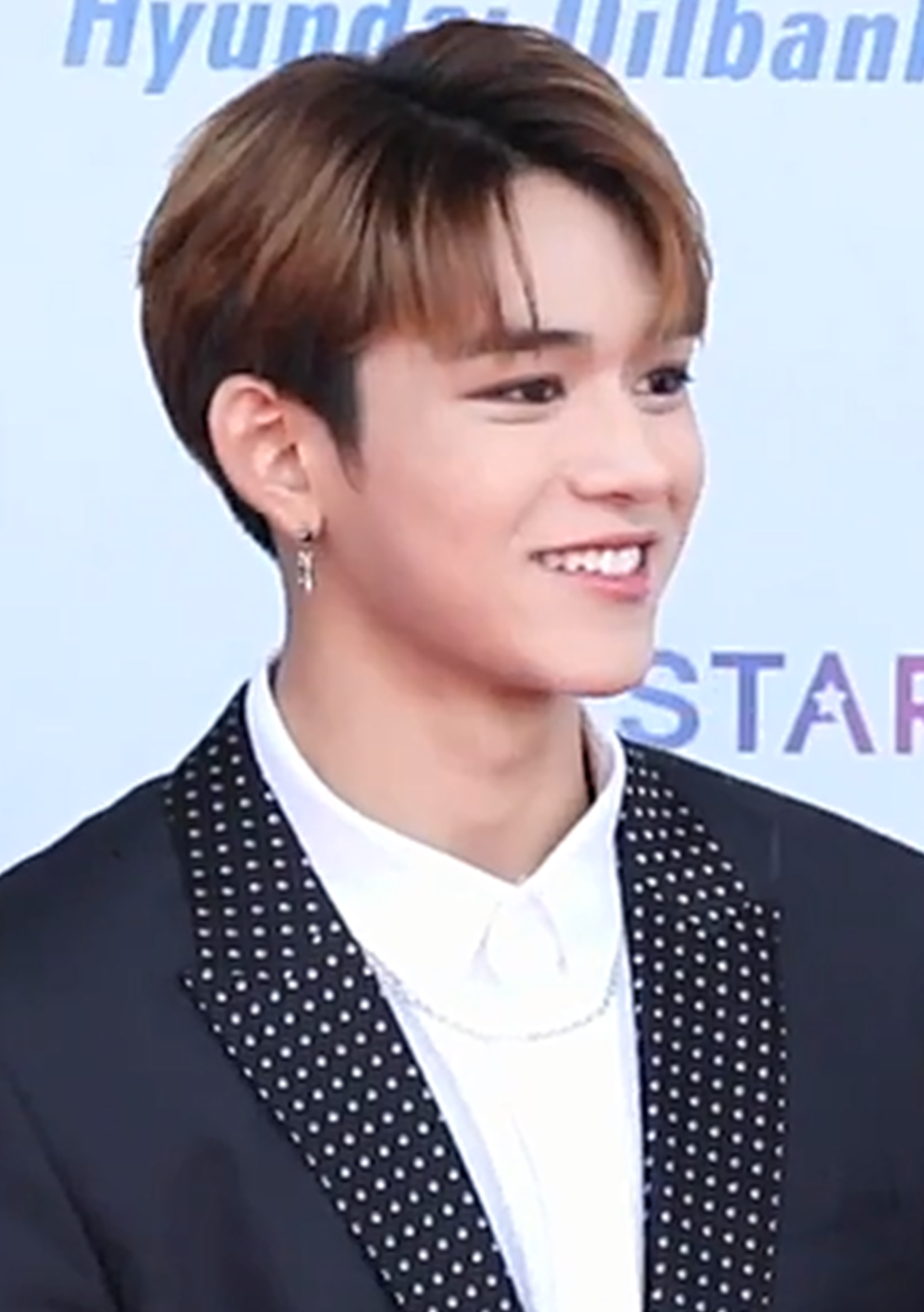 Lucas Wong during an interview on the red carpet of the 24th Dream Concert, May 12, 2018.